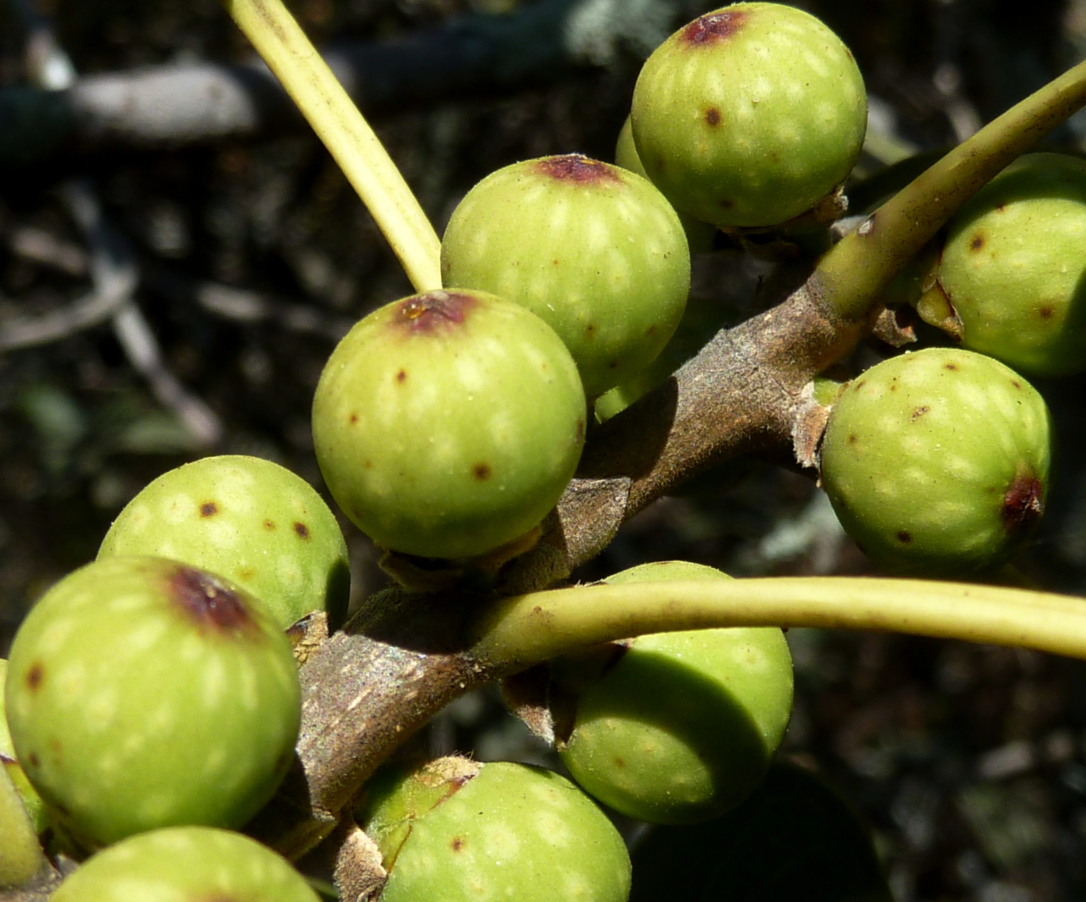 Placement of figs on a Red-leaved fig in Eugene Marais Park, Pretoria